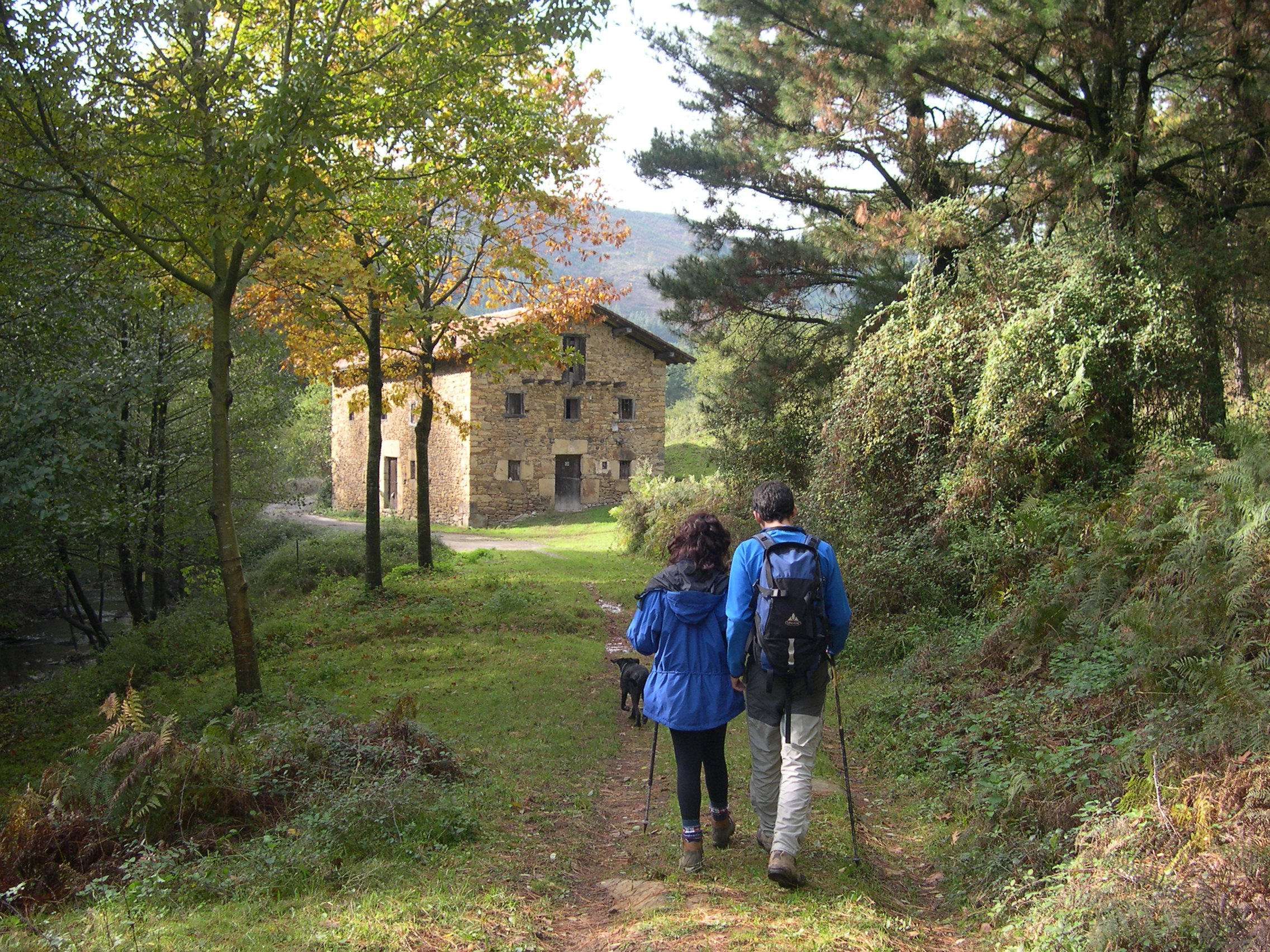 Basque old house